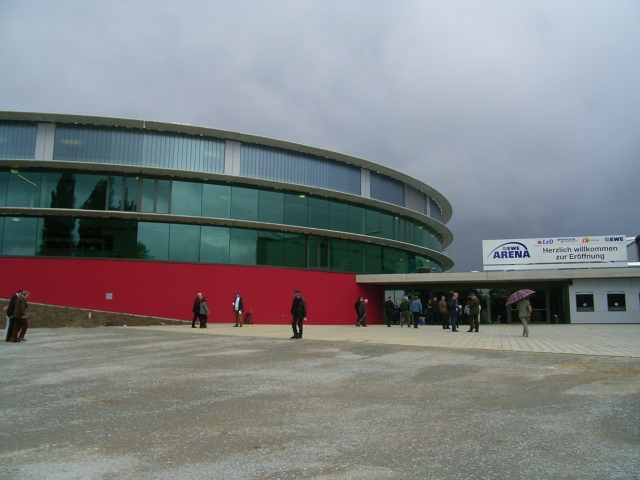 The "EWE-Arena" in Oldenburg (Oldb) in Germany. Photography from the opnening event on June 13, 2005.